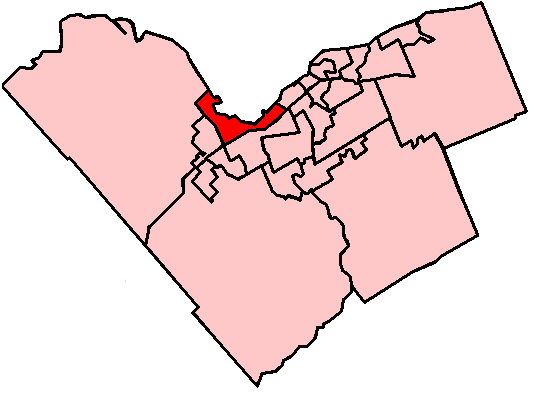 Map showing Bay Ward